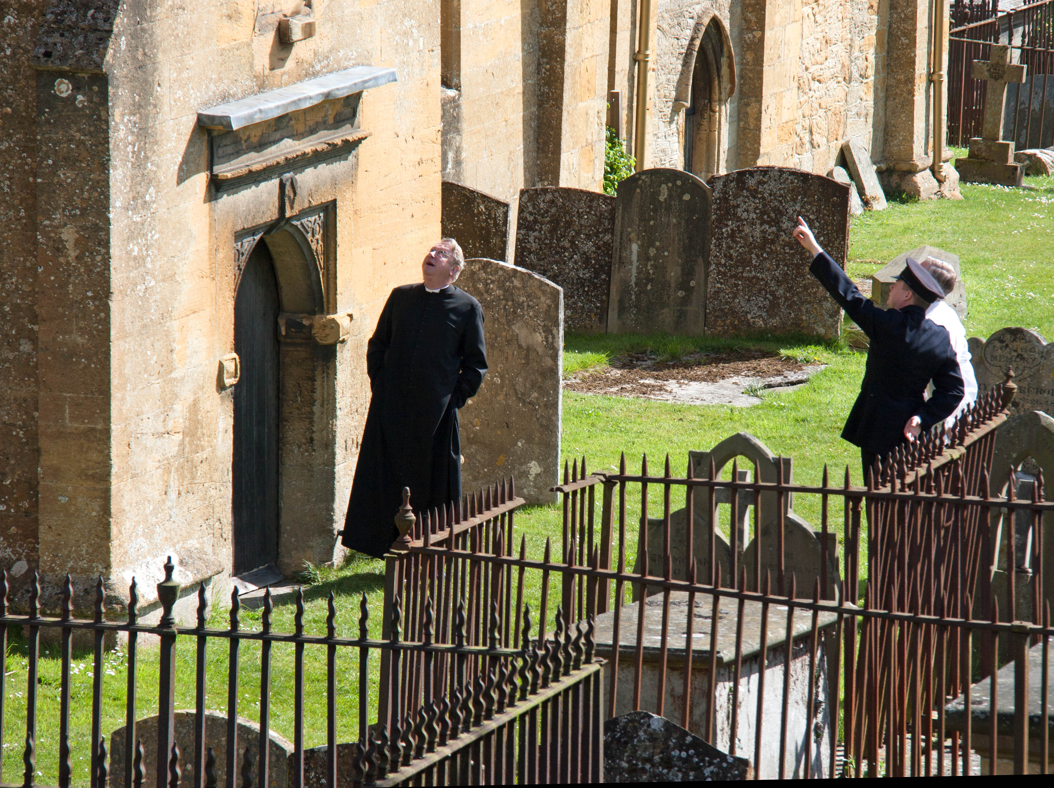 A photograph of three of the actors of the BBC Father Brown TV series filming in Blockley Churchyard, Gloucestershire, UK